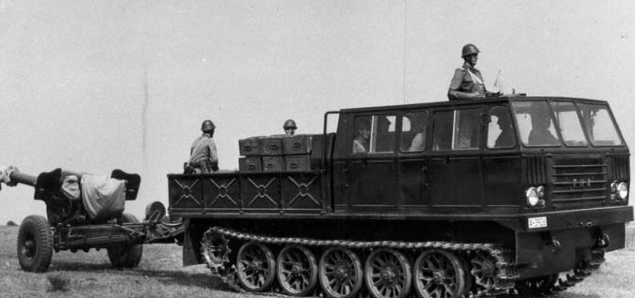 A TMA-83 artillery tractor towing a 152 mm M81 howitzer in the 1980s.